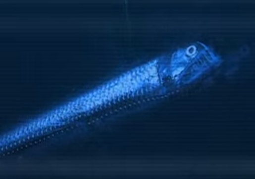 A close-up of the Viperfish